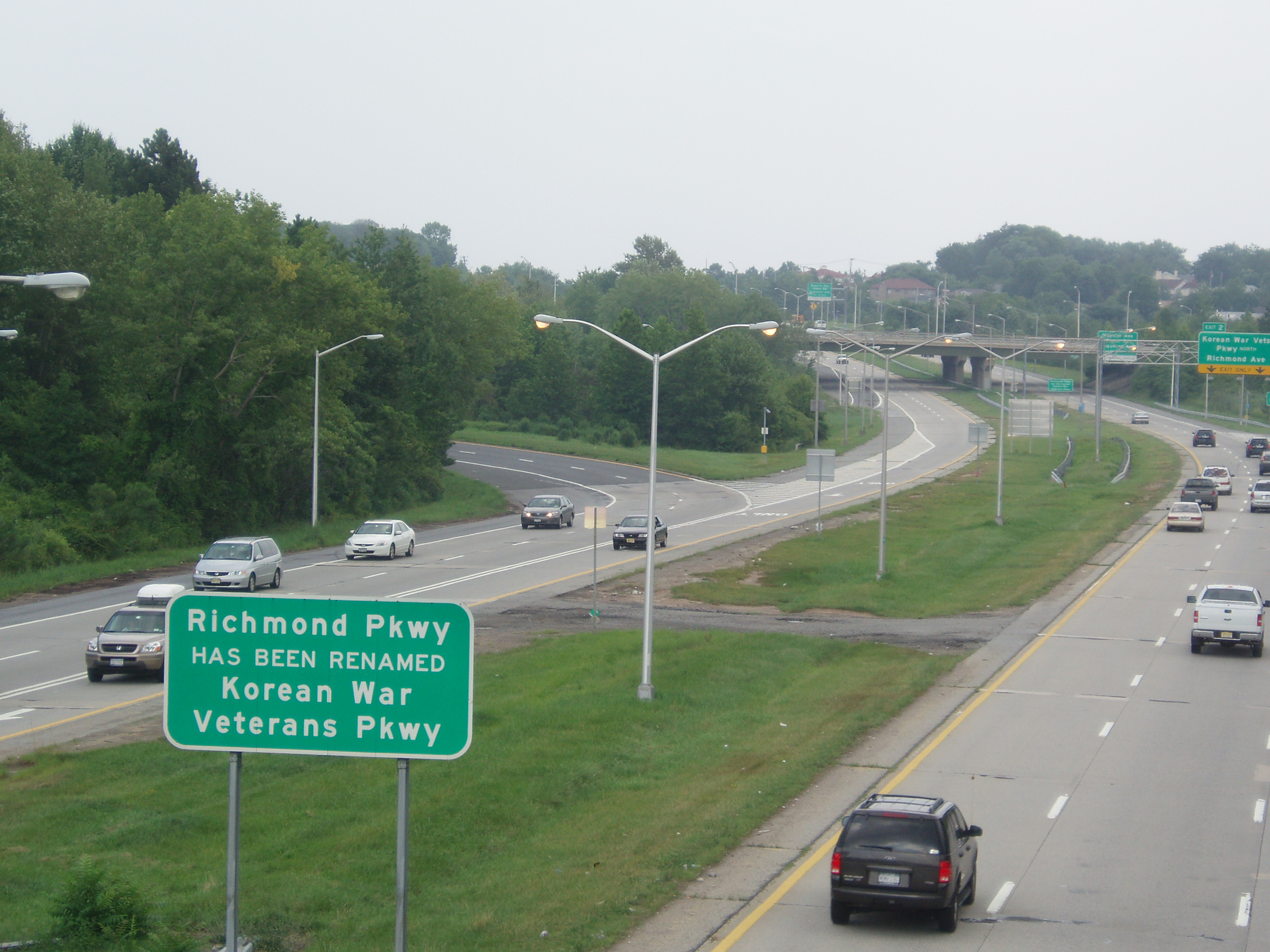 The Richmond Parkway, now Korean War Veteran's Parkway, facing northeast from Tyrellan Avenue, where it divurges from the West Shore Expressway.